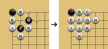 An example of a white ring in a Rin game